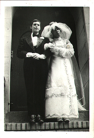 Royal Drag, 29th July 1981. Topo and Jimini wedding